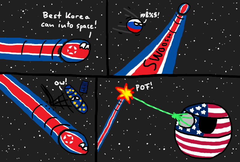 Polandball comic on the news that North Korea has successfully launched a satellite into space (news link) - comic also includes news from here